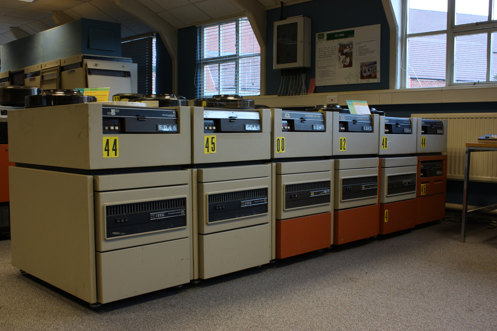 An ICL2966 mainframe from 1982/83 at the national Museum of Computing. The system isn't completely up and running yet, but the volunteers are working on it.